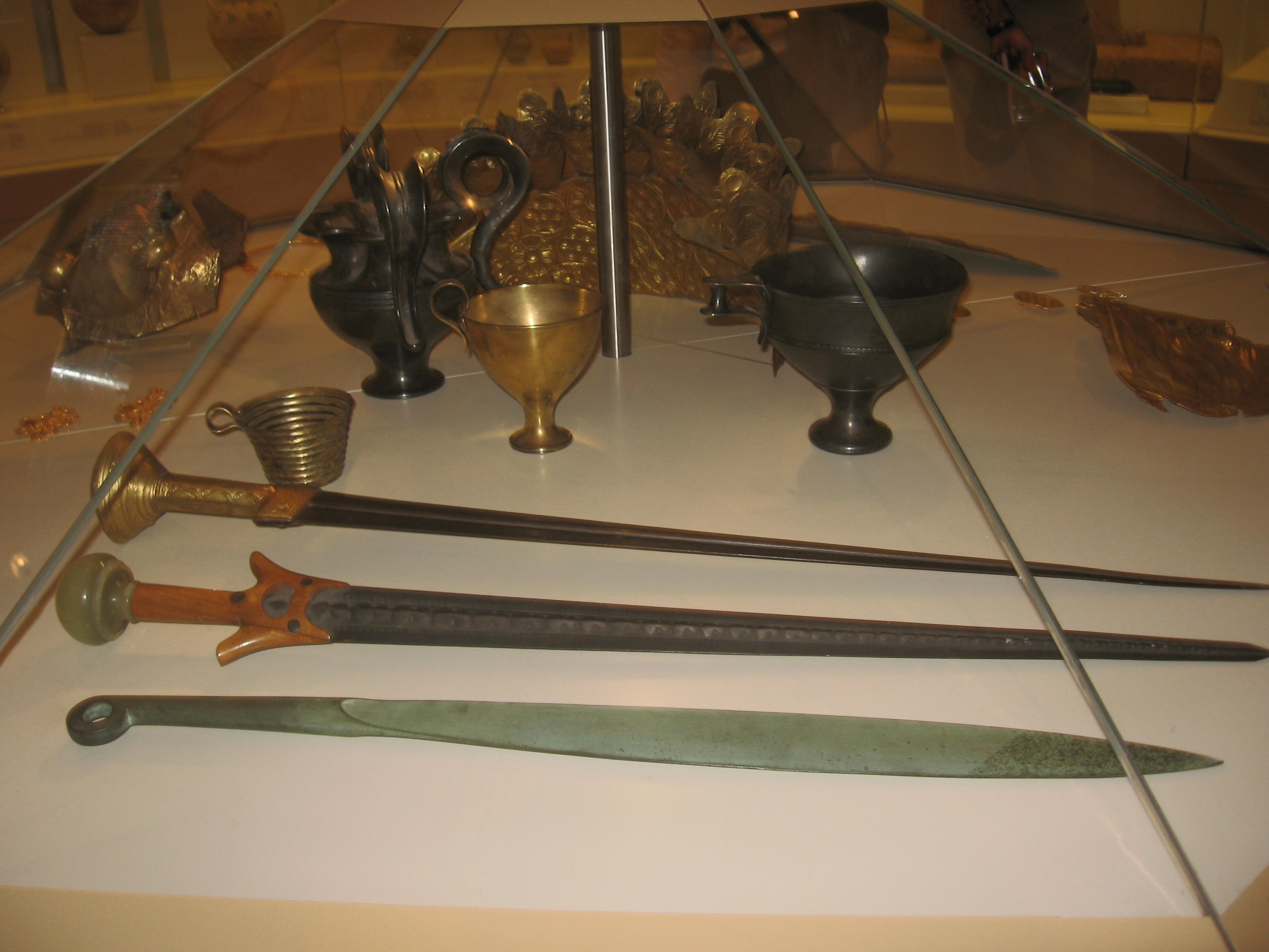 Author: Ruth van Mierlo Examples of Mycenaean swords, picture taken at the museum at Mycenea. These are replicas, the real pieces are in the National Archeological Museum in Athens. Please give clear credit to the photographer (Ruth van Mierlo) if you use this picture.